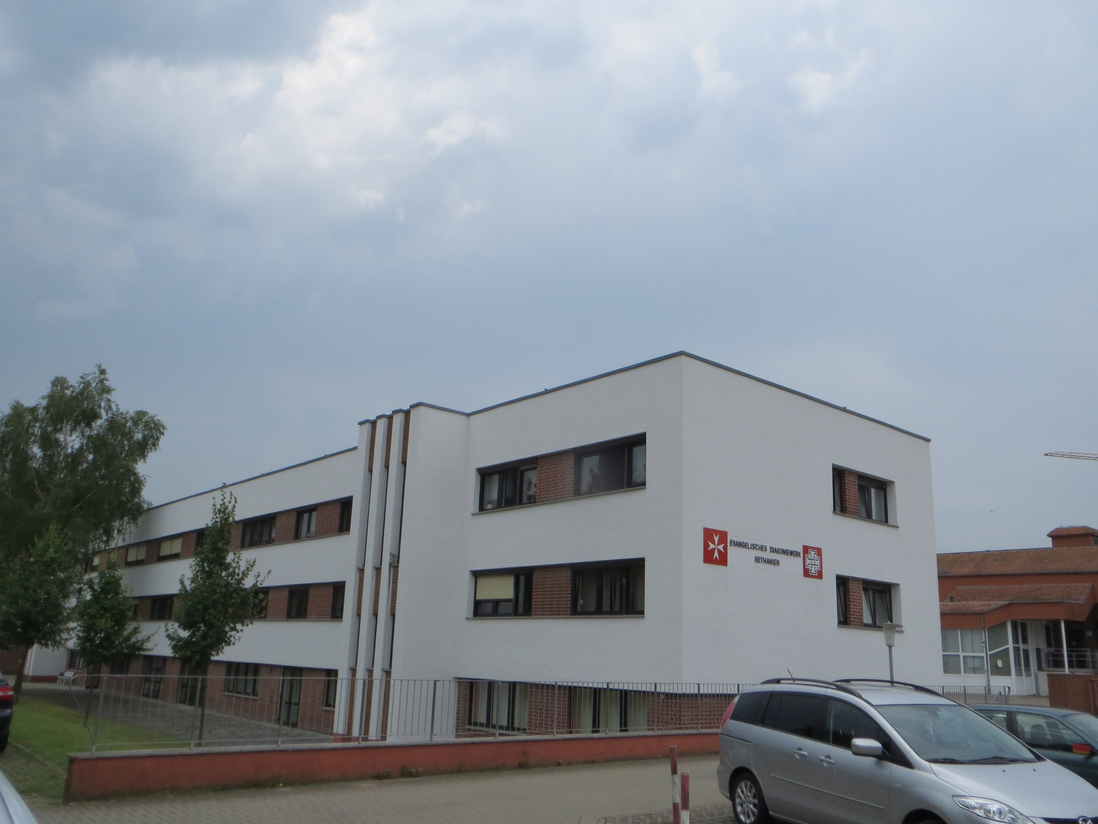 Bugenhagenstift Ducherow